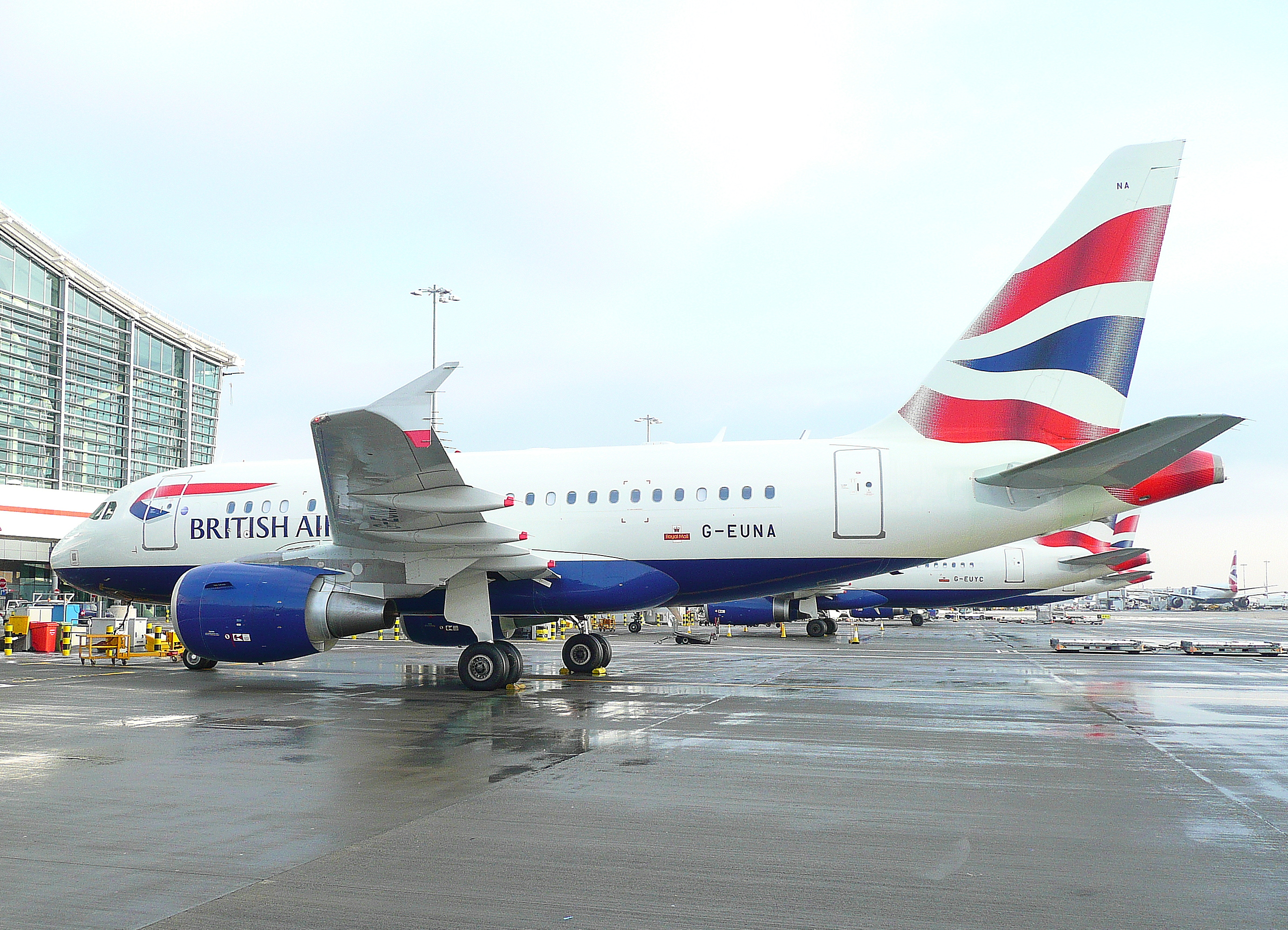 G-EUNA A318 BA on std 522 during a diversion from LCY